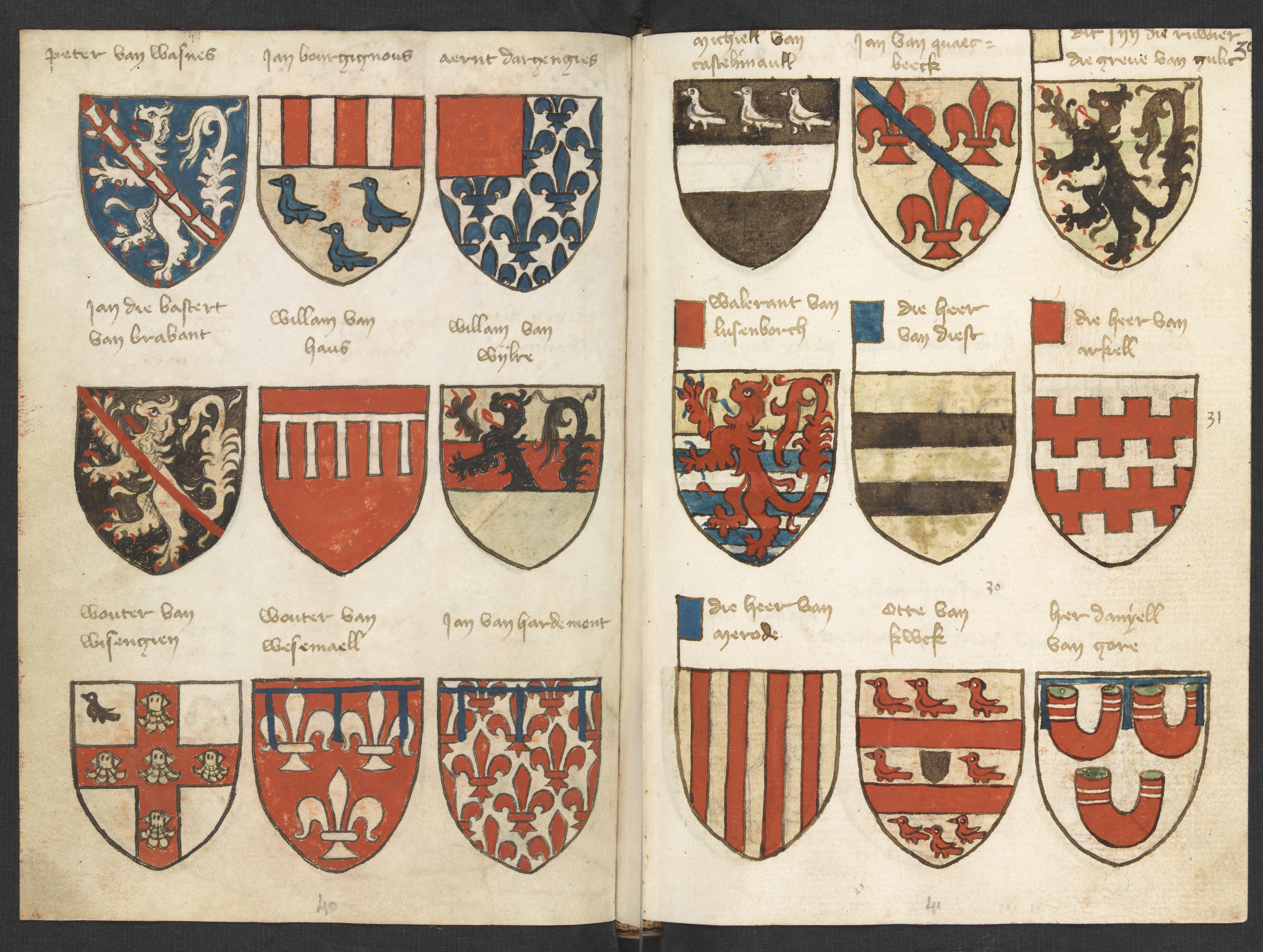 Lefthand side folio 029v; righthand side folio 030r from the Beyeren armorial / Wapenboek Beyeren